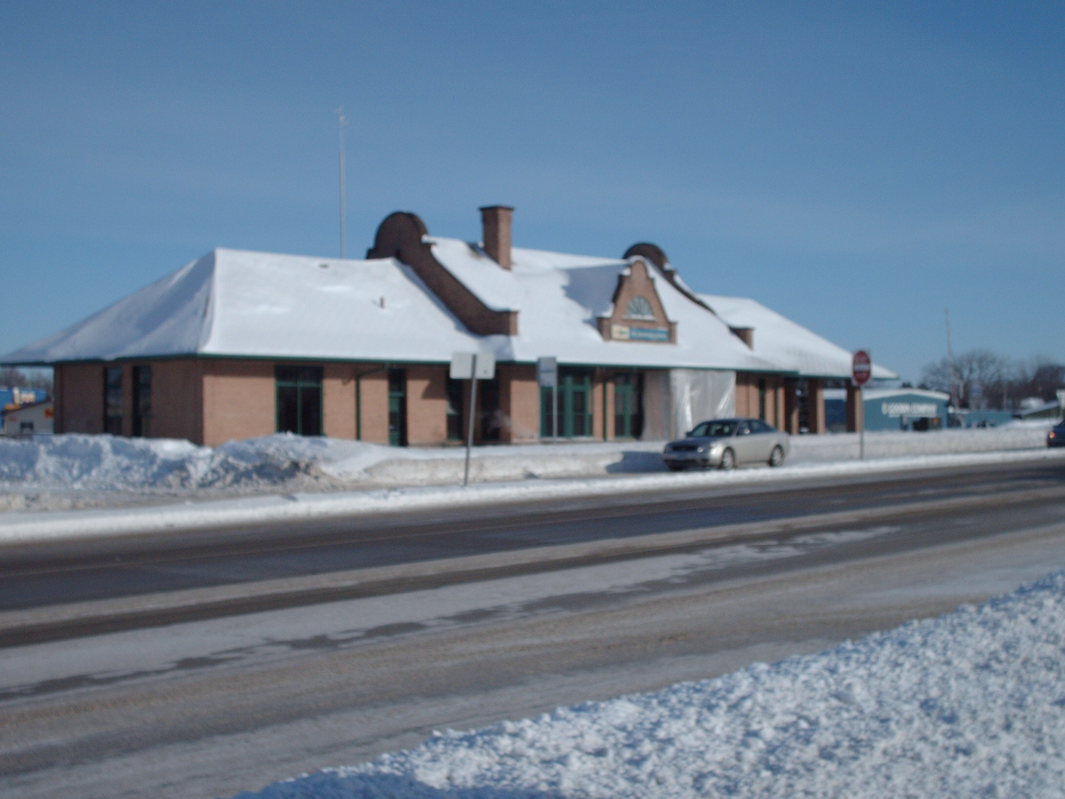 I took this photograph myself on December 31, 2008. It is entirely my work and I release rights to it to the public domain.